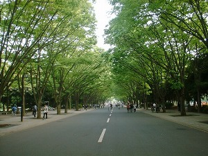 Zelkova trees and the main street of Shonan Campus, Tokai University. Located in Hiratsuka, Kanagawa, Japan. Photo taken by Tsurumakioone in 2004